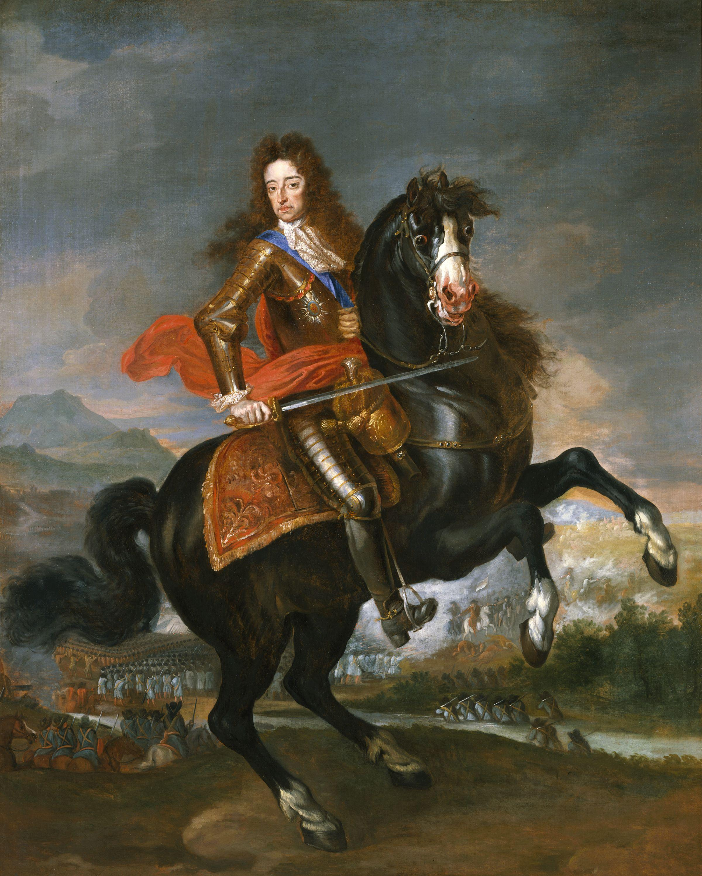 given to the National Portrait Gallery, London in 1896. All images in this batch are listed as "unknown author" by the NPG, who is diligent in researching authors, and was donated to the NPG before 1939 according to their website.